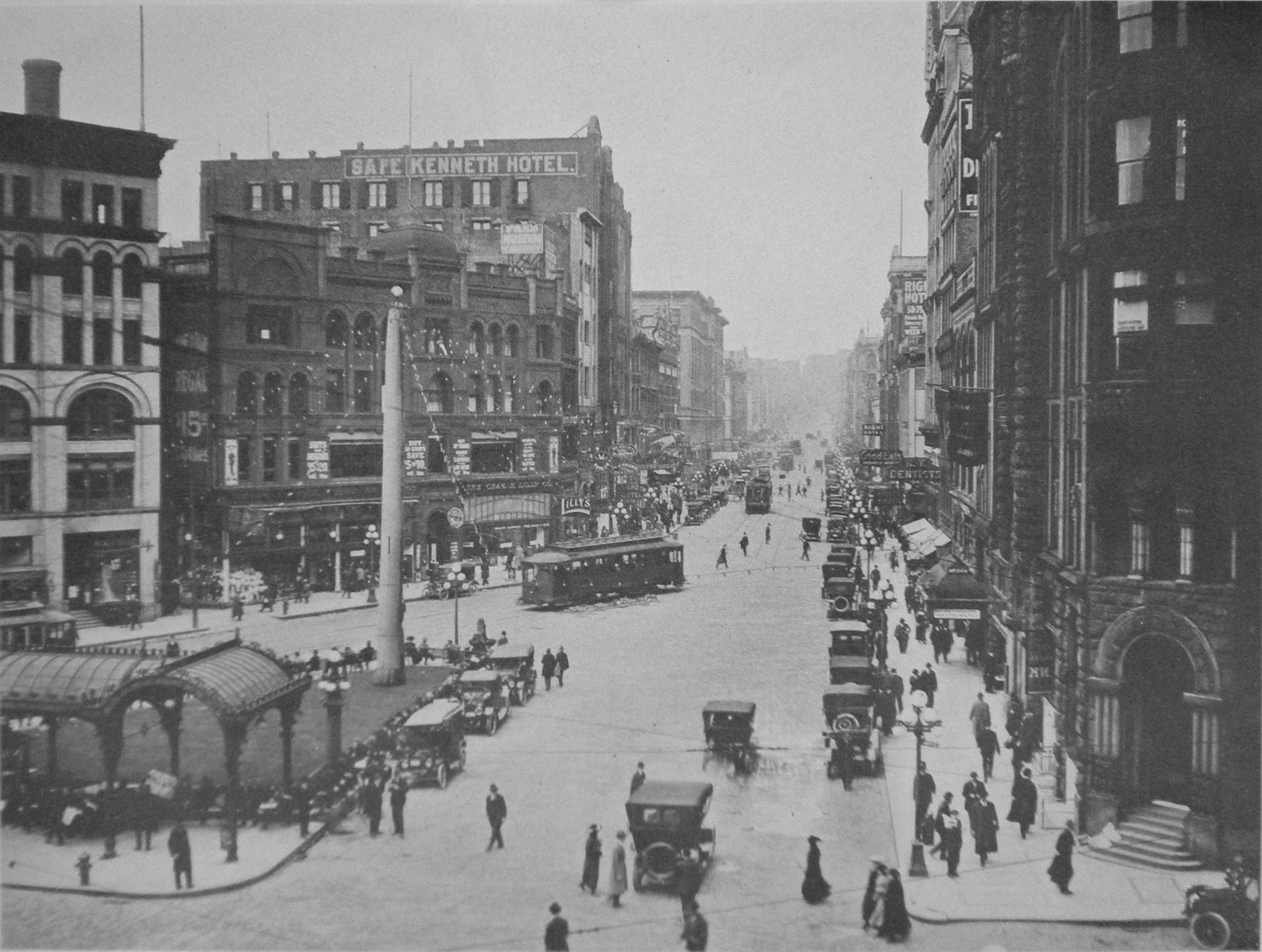 Seattle, Washington, 1916. First Avenue looking north from where it meets both James Street and Yesler Way. The closest block of First Avenue here has now been cobbled and incorporated into Pioneer Square Park. The totem pole has been replaced by a replica, and the iron pergola was rebuilt after being hit by a truck. The Pioneer Building (on the right) is very much intact as of 2008, as is the Mutual Life Building partially seen at far left. Several other buildings visible survive in whole or part as of 2008, but the building most prominently visible at center left is gone and replaced by a parking lot; the "Safe Kenneth Hotel" is also replaced by a multi-story parking lot.